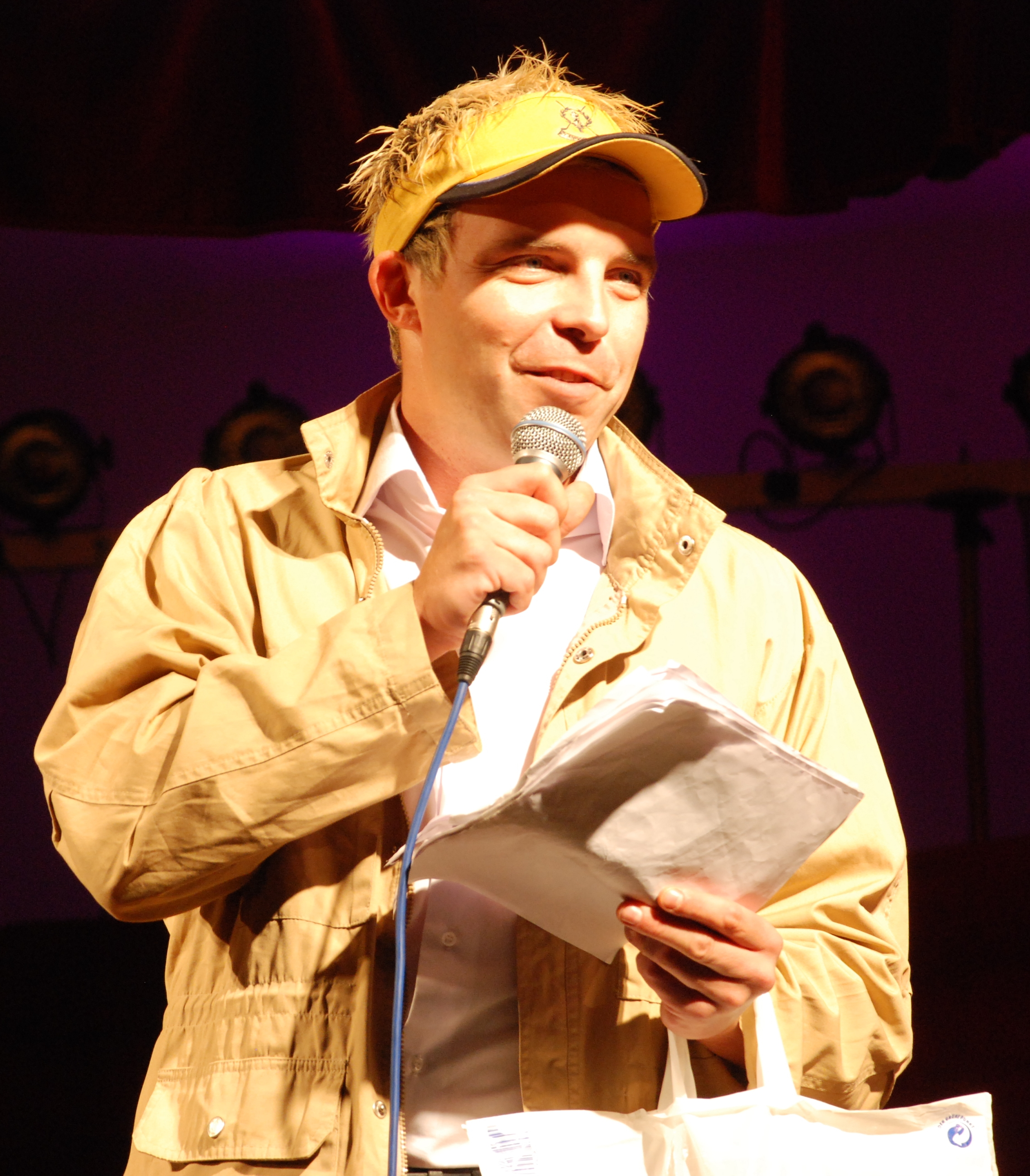 Marcin Wójcik of Kabaret Ani Mru-Mru during a performance on the fourth day of the 2007 Festival of Cabaret in Zielona Góra.